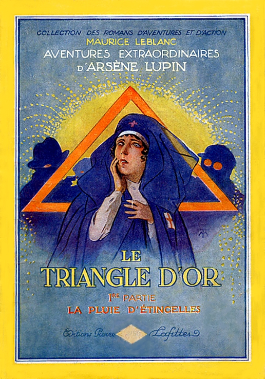 Illustrations from the book, Le Triangle d'Or (with Arsène Lupin), written by Maurice Leblanc, illustrated by unknown author.